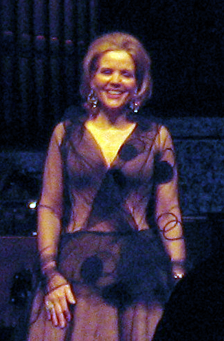 One of my pupils took this photo while attending a concert of Renée Fleming in Germany a few weeks ago. She releases the copyright into the public domain. Musical Linguist 00:40, 23 January 2007 (UTC)